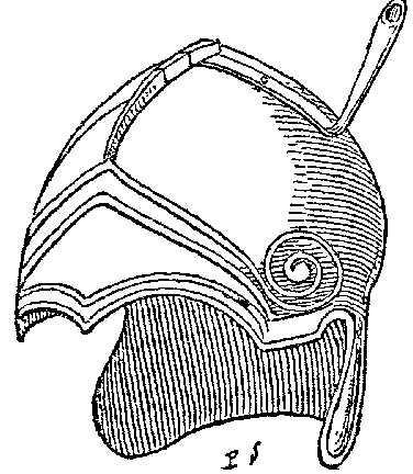 Attische helm gevonden in de Basilica (Attic helmet found in the Basilica; Casque attique trouvé en Basilicate)